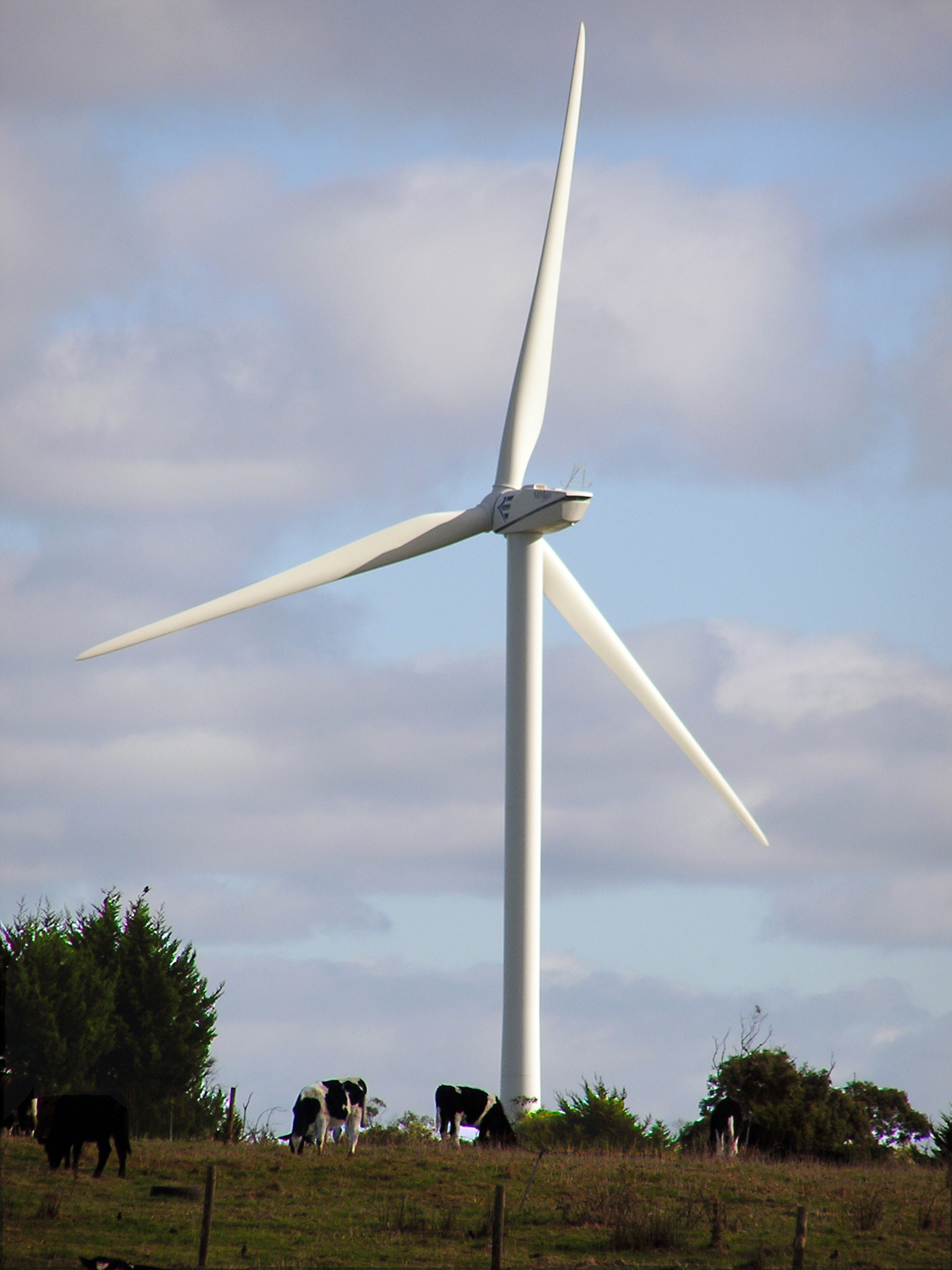 Wind Farm In Wonthaggi, Victoria, Australia